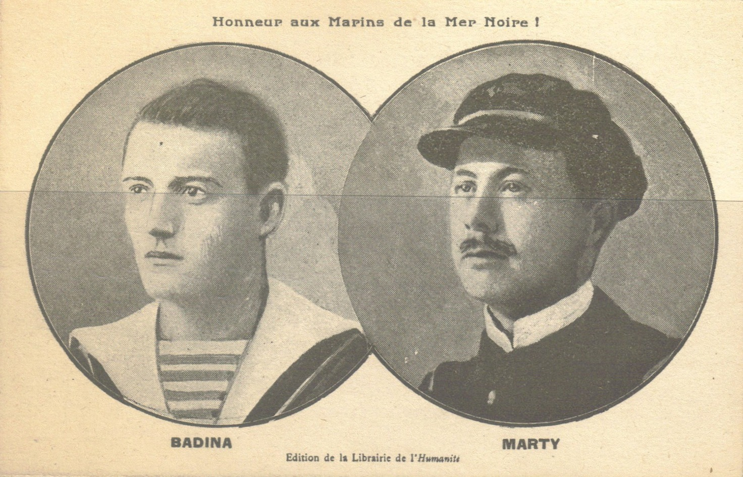 Postcard published by the French Communist Party to demand the release of two of the mutineers of the Black Sea in the early 1920s.